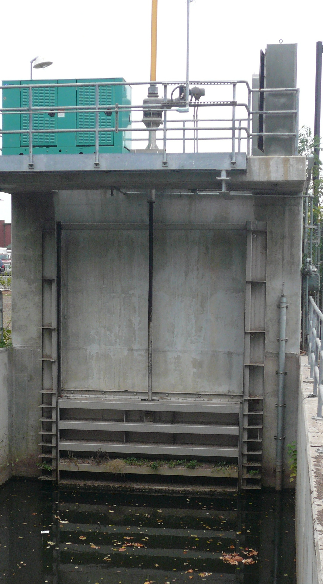 Stainless steel sluice gate in Lodi, New Jersey, USA. Photo taken by Keith Thompson of TASCO & Associates for Whipps, Inc.